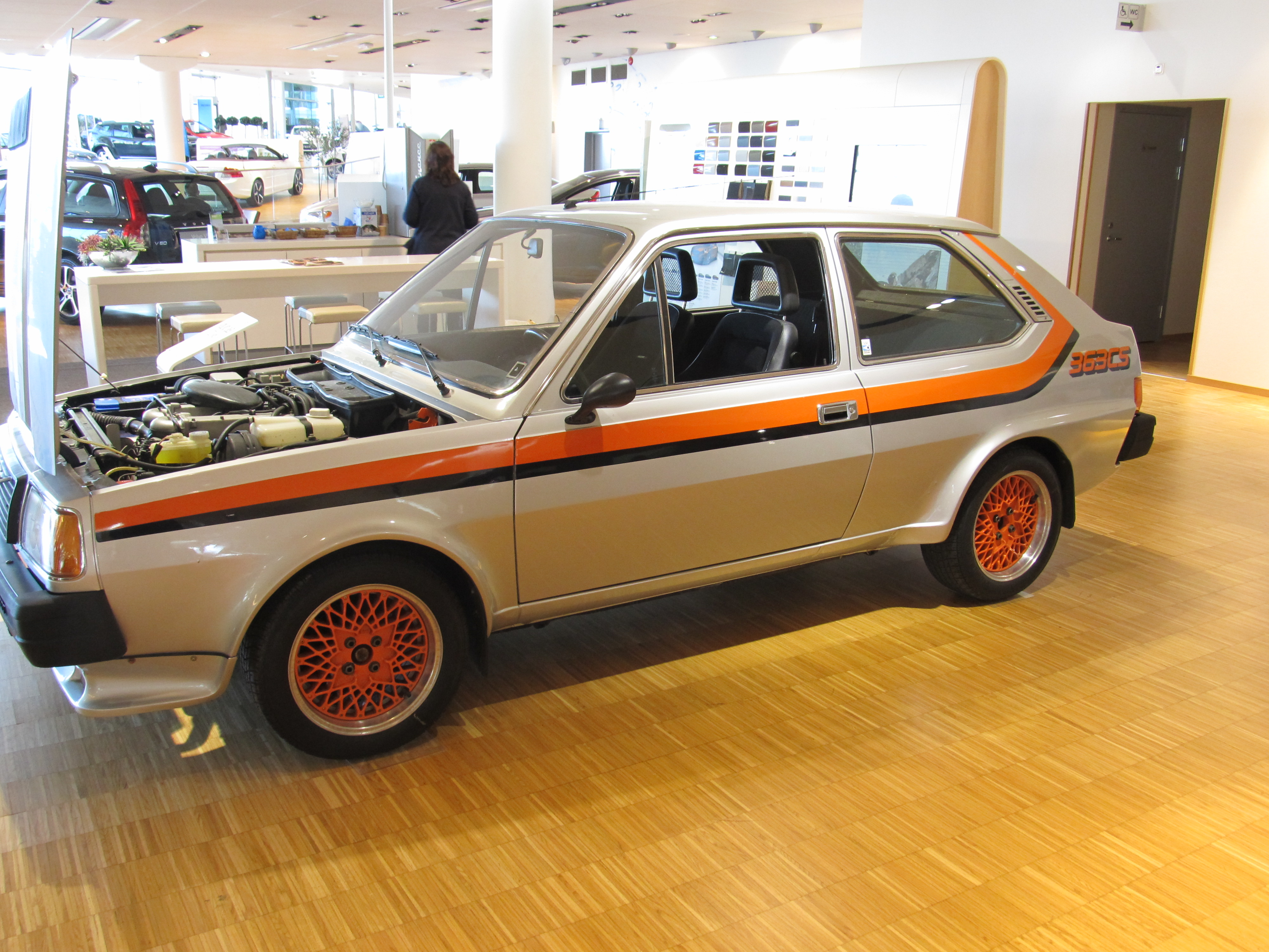 Volvo 363cs V6 prototype